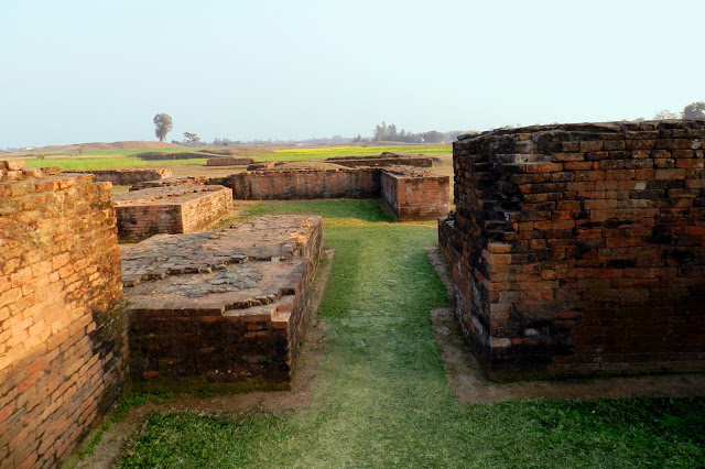 Bangarh is located on the bank of the Punarbhaba river in the city of Gangarampur, Dakshin Dinajpur.